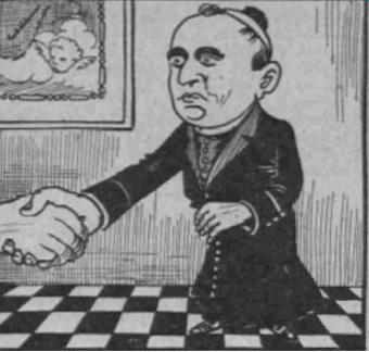 Joan Josep Laguarda i Fenollera, in La Campana de Gràcia magazine of 23.1.1909